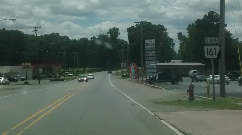 This photo was taken at the AR-161/AR-294 junction in Jacksonville, Arkansas on May 23, 2016.